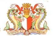 Coat of Arms of Malta (1964 - 1975)